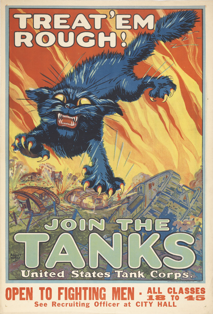 World War I-era poster shows a black cat with outstretched claws soaring over the tanks below. Poster urges Americans to join the United States Tank Corps. Artist: August William Hutaf, ca. 1917-1919. published, Library Company of Philadelphia Accession Number: P.2284.240